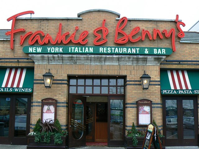 Frankie & Benny's restaurant, Greenbridge Retail Park, Swindon A bit of the Big Apple in Swindon.